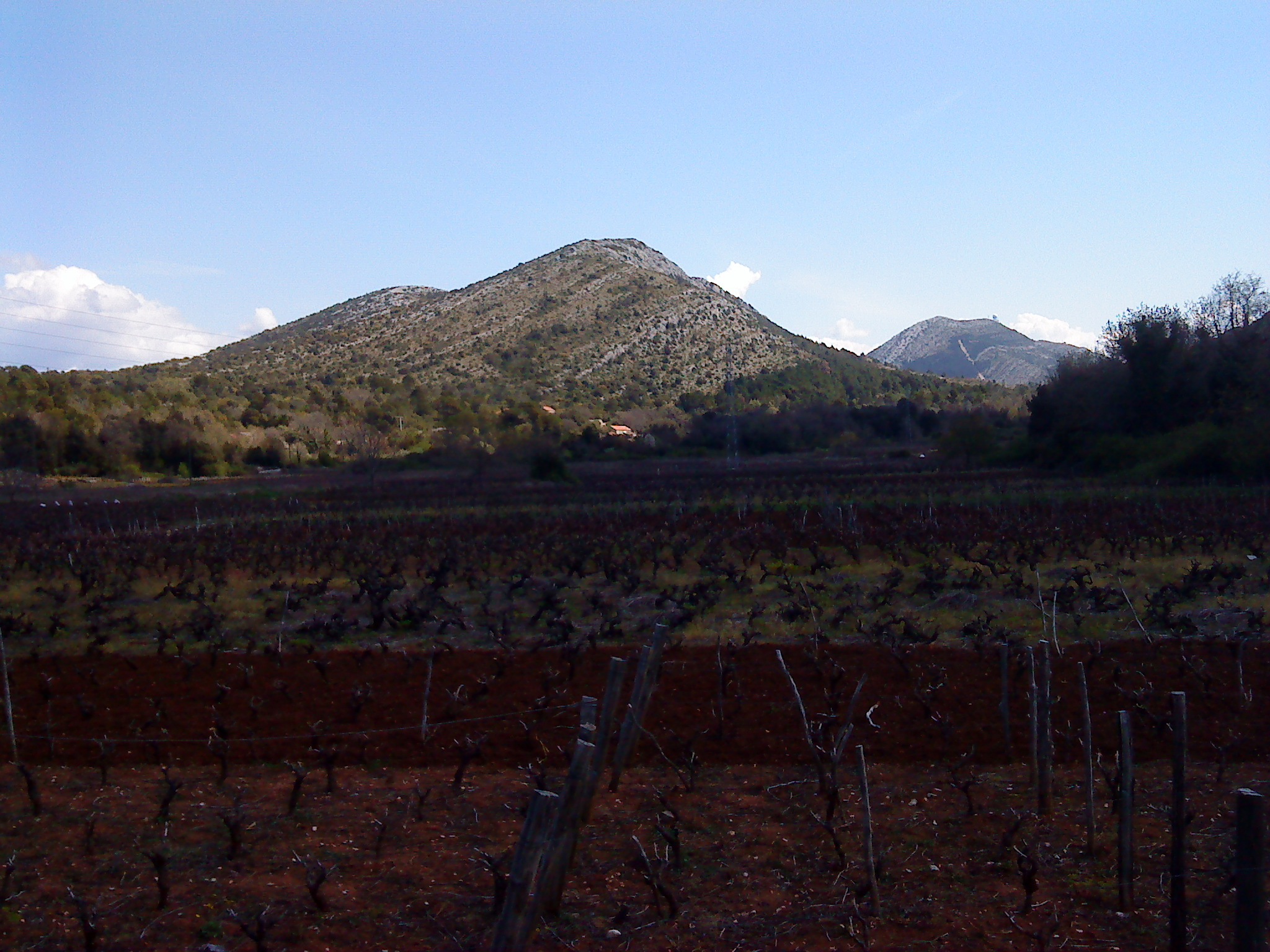 in Oskorušno